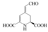 Betalamic acid structure